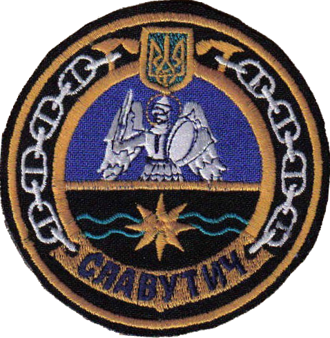 U510 Slavutych - command ships of Ukrainian Navy